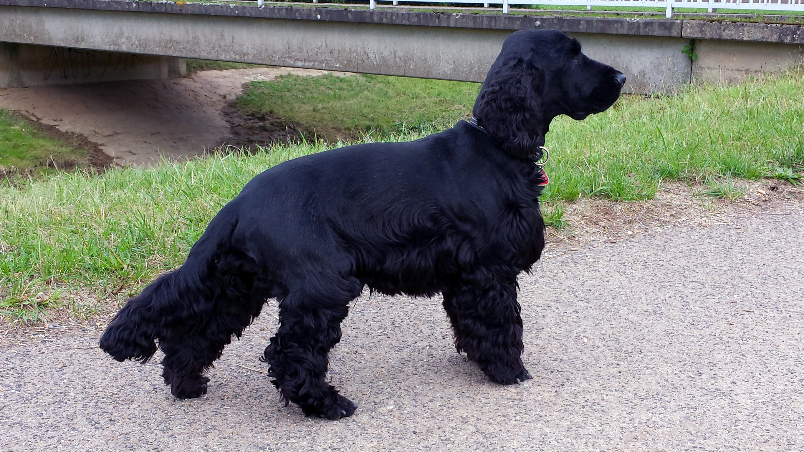 An English Cocker Spaniel male, George, 2 years old, bred by Tihany's.